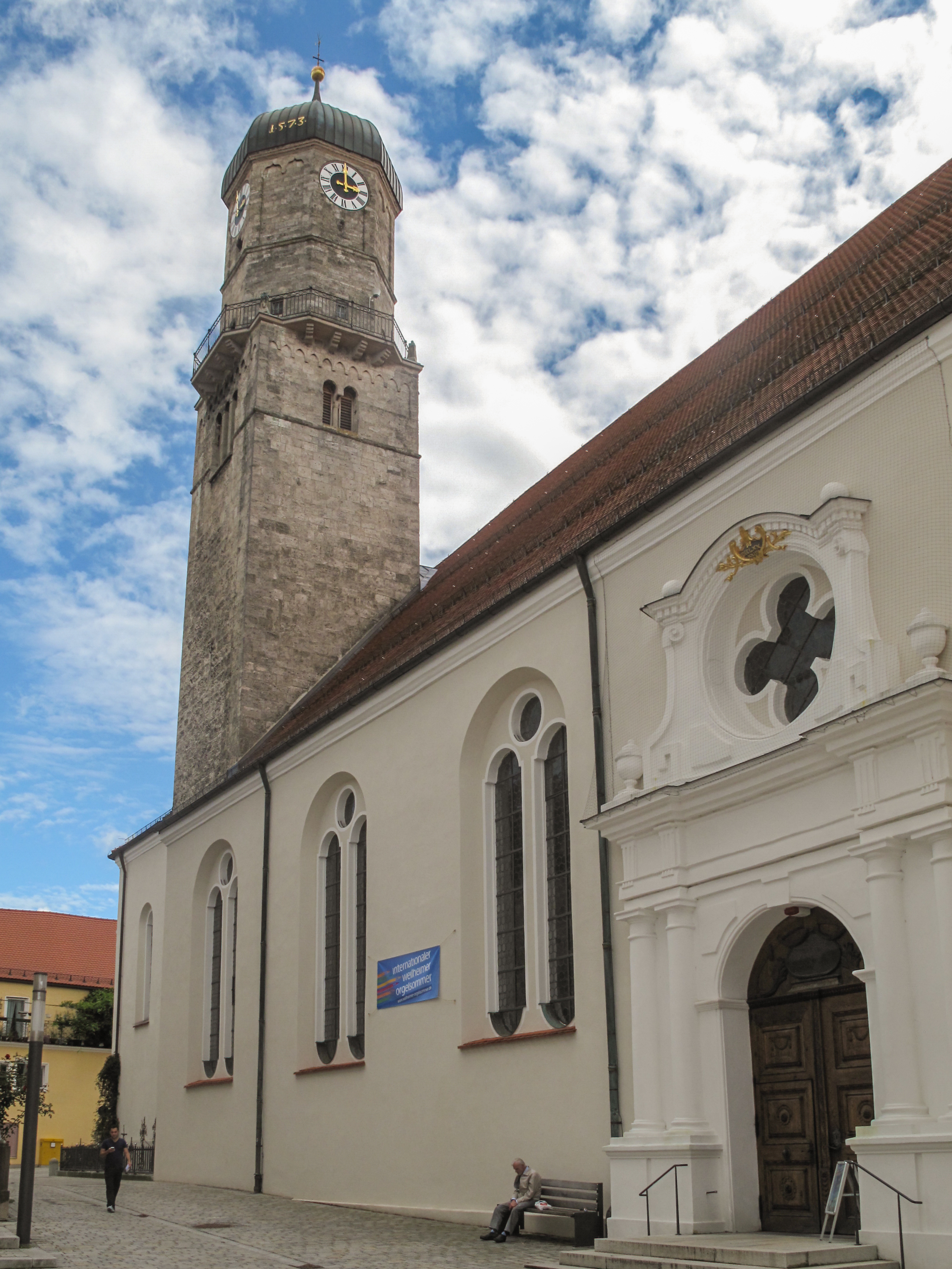 Weilheim, church tower: Sankt Mariä Himmelfahrt Kirche